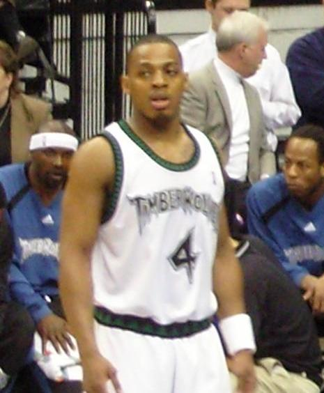 Randy Foye, Minnesota Timberwolves